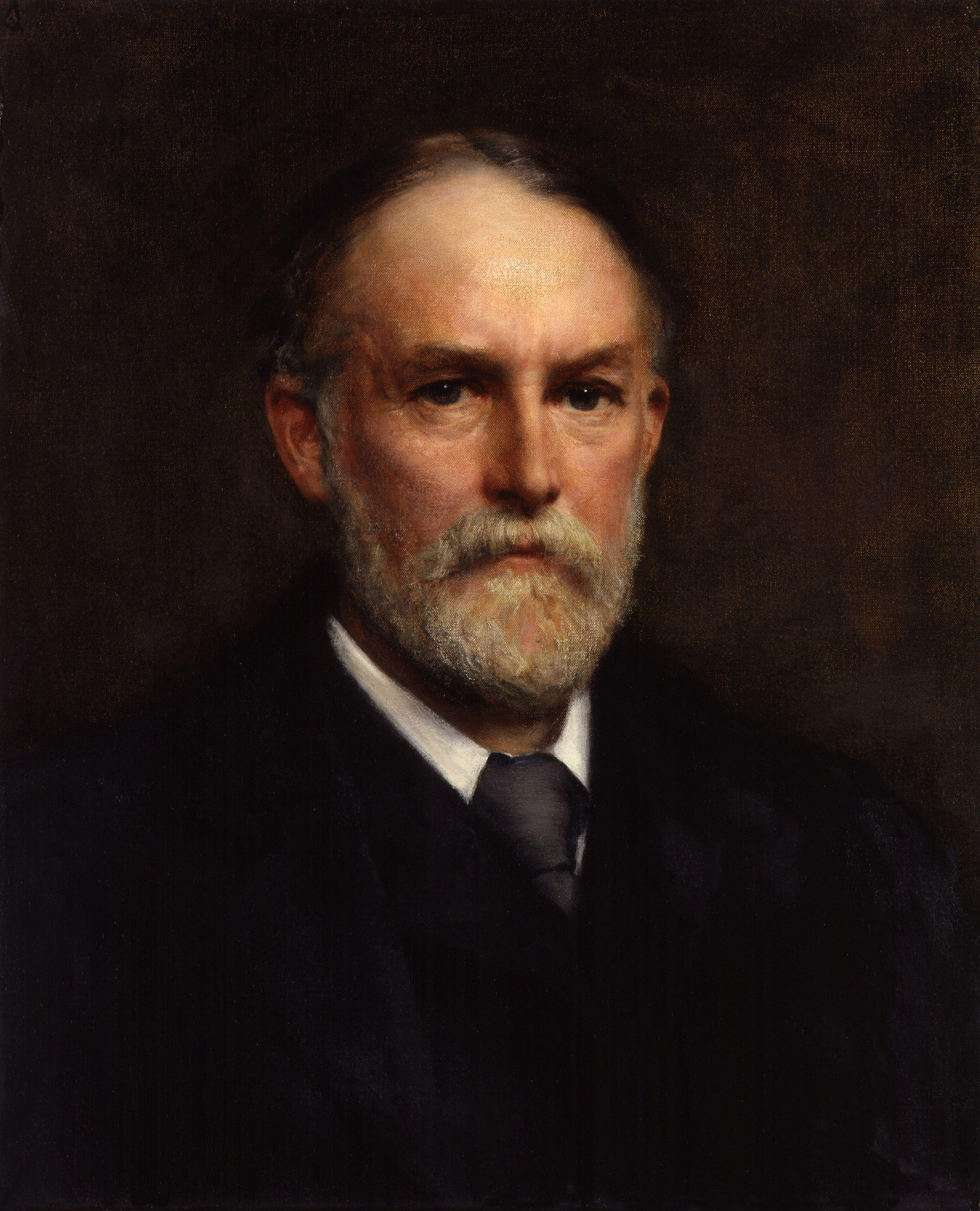 Frederic William Henry Myers, by William Clarke Wontner, given to the National Portrait Gallery, London in 1938. All images in this batch have a known author, but have manually examined for strong evidence that the author was dead before 1939, such as approximate death dates, birth dates, floruit dates, and publication dates.